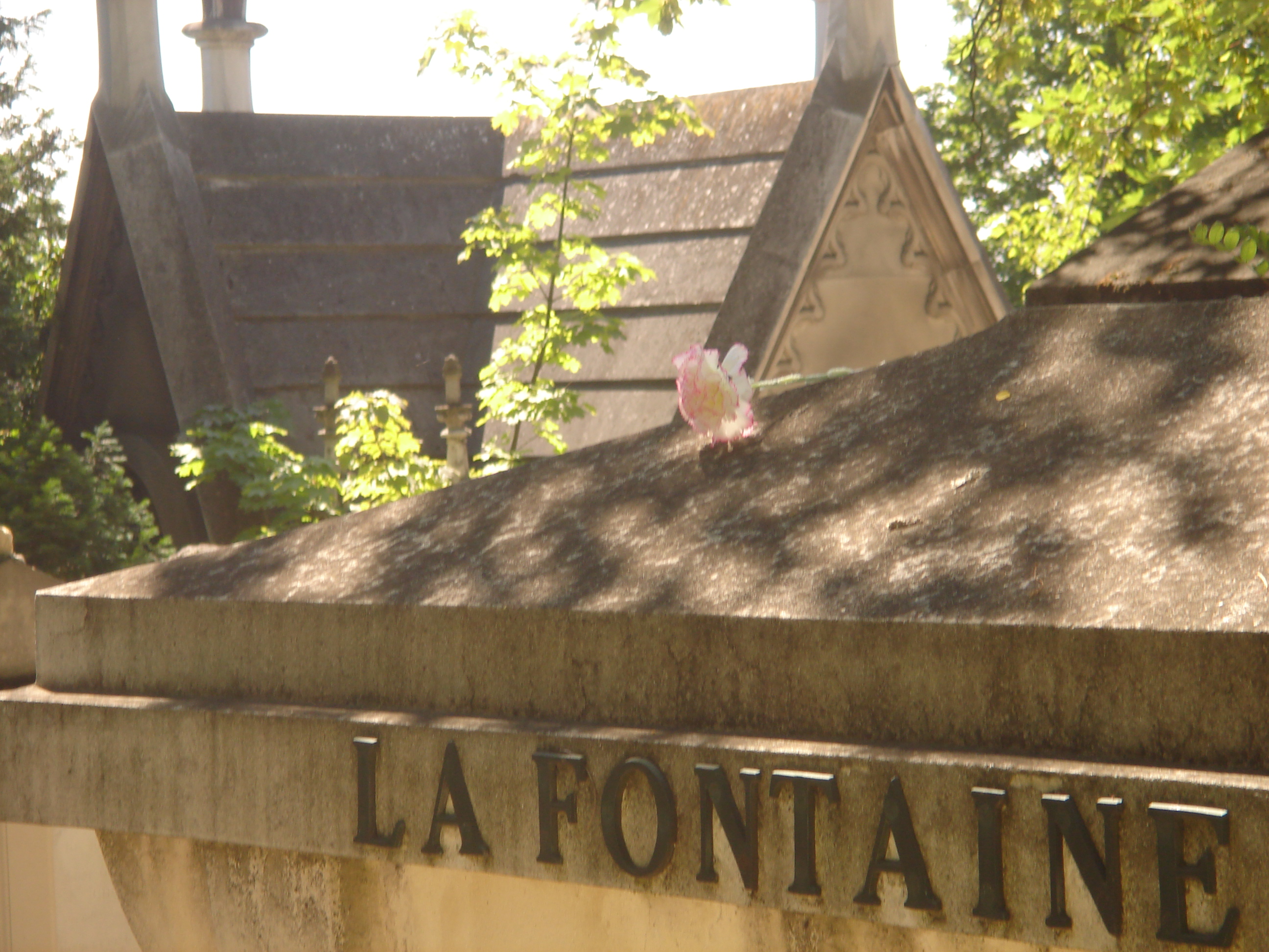 Tomb of the french writer Jean De La Fontaine in the French Cemetery of Père Lachaise